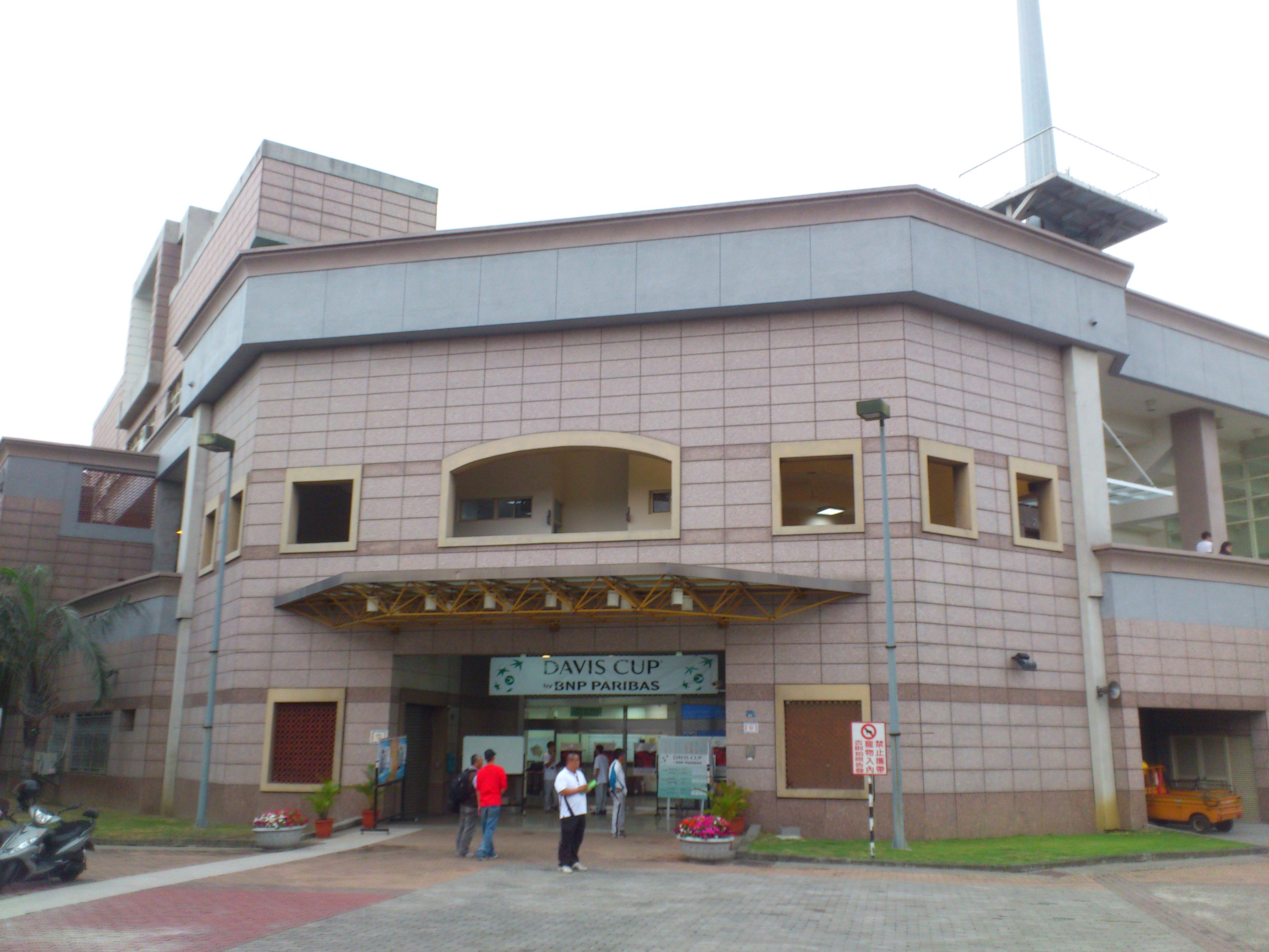 Yangming Tennis Center at 2012 Davis Cup Asia/Oceania Group I Relegation Play-off Day 1.